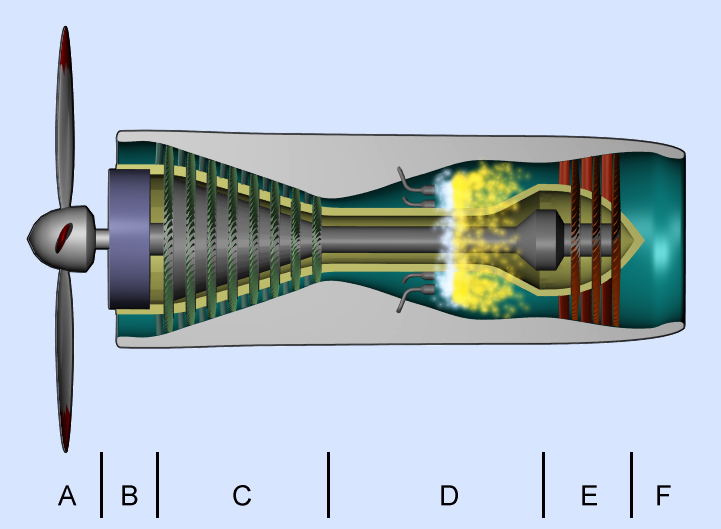 Schematic diagram of a turboprop engine A Propeller B Gear-box C Compressor D Combustion chamber E Turbine F Nozzle (the actual gas turbine is composed of the parts C to E)